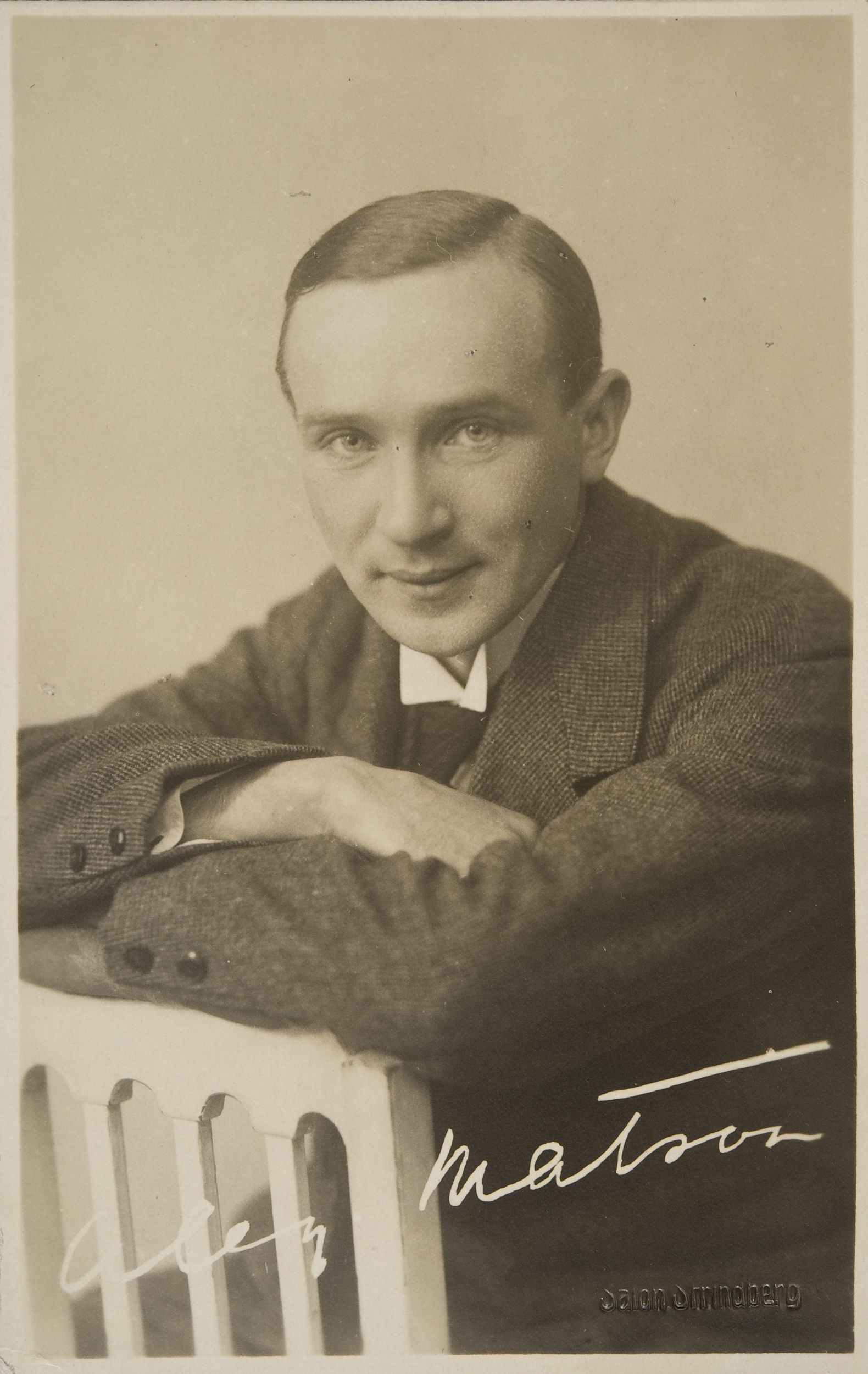 Photograph of the Finnish writer Alex Matson (1888–1972).